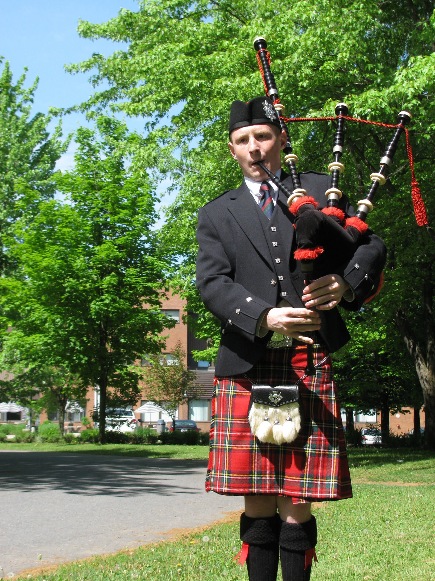 Bagpiper in the province of Quebec